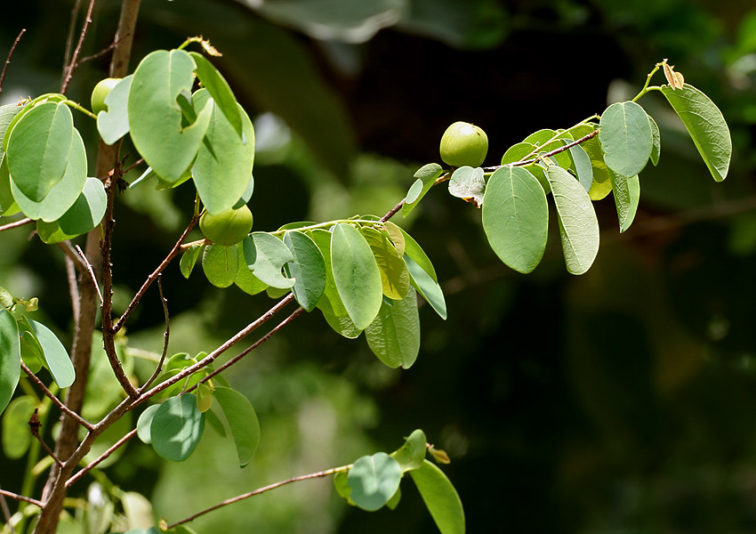 Cleistanthus collinus (Syn. Lebedieropsis orbicularis, Clutia collina)- Garari, Karra • Hindi: Garari, Garrar • Marathi: Garari • Tamil: nilaippalai, odaichi, odan, odishi • Malayalam: nilappala, odugu • Telugu: kadise, korshe, korsi, vadise • Kannada: badedarige, bodadaraga, kadagargari • Oriya: korodo • Sanskrit: indrayava, kaudigam, kutaja, nandi - in Narsapur, Medak district, Andhra Pradesh, India.